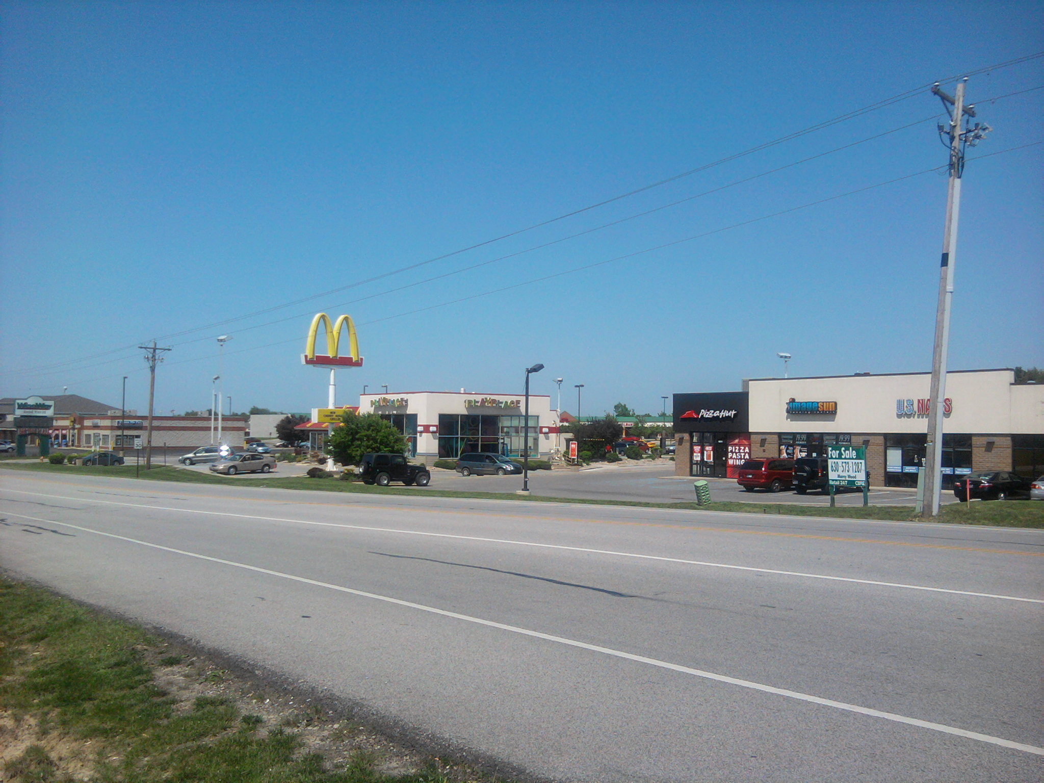 Randolph Street in Winfield, Indiana, looking north